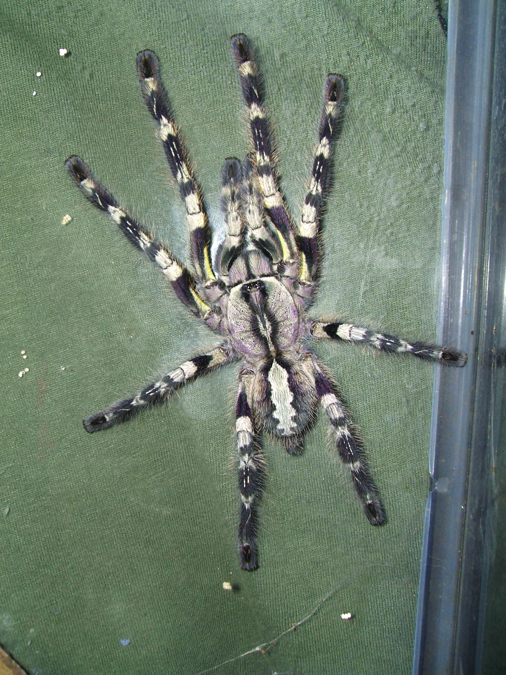 picture of an adult female poecilotheria regalis